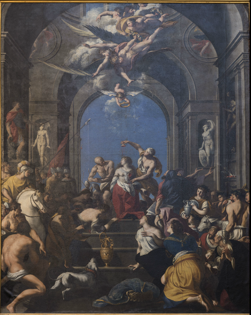 Martyrdom of St. Agata, altarpiece by Giovanni Andrea Coppola in the Cathedral of Gallipoli